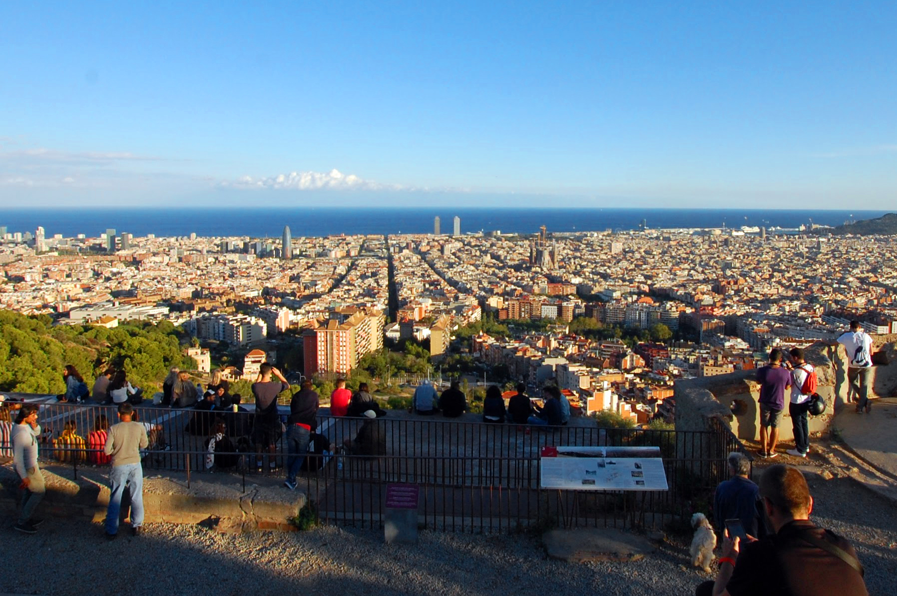 Panoramic view of Barcelona from the civil war anti-air defences